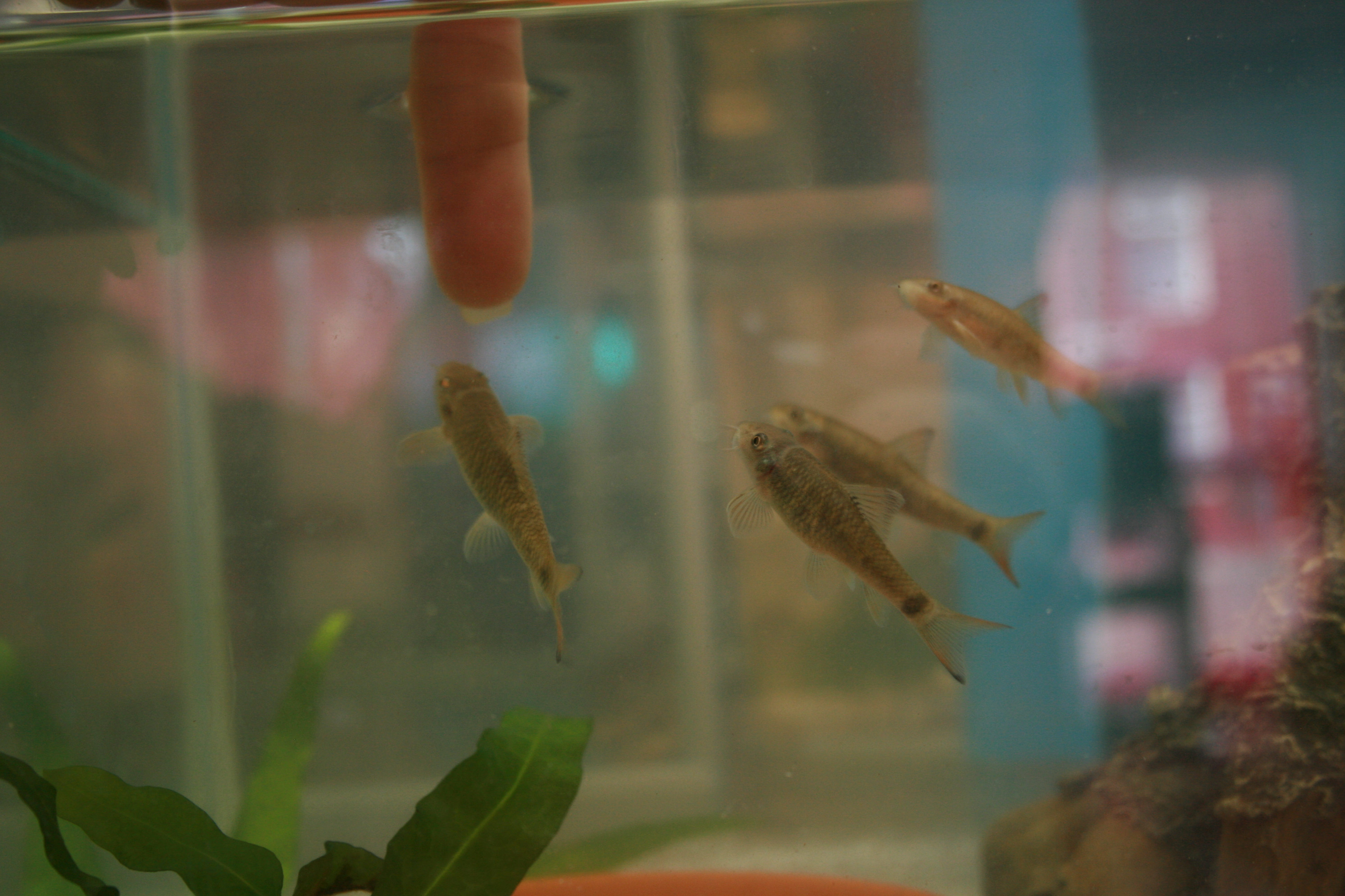 Garra rufa fish and a finger